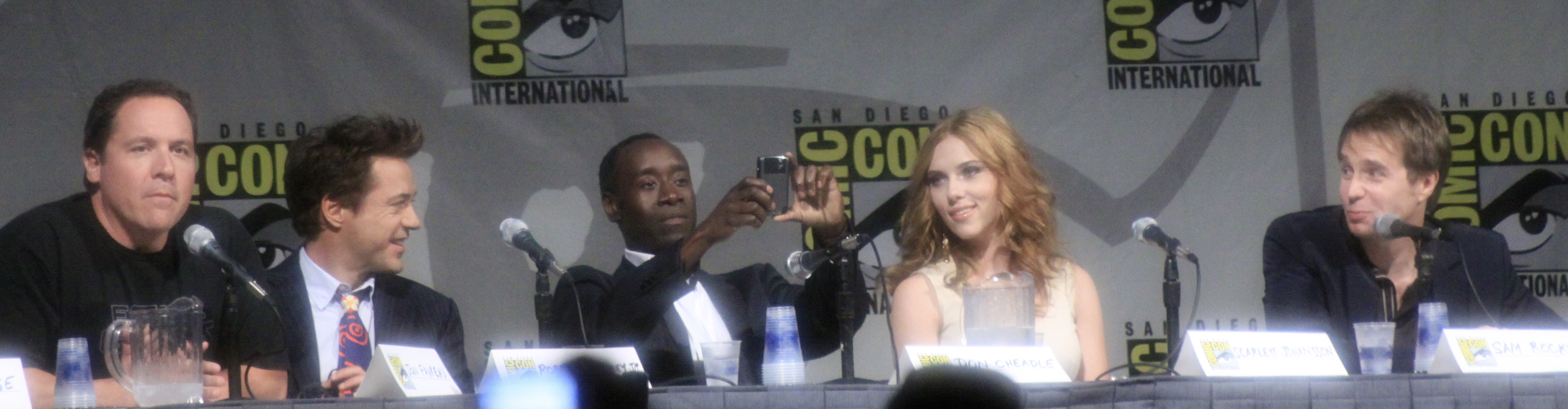 Director Jon Favreau and cast members Robert Downey, Jr., Don Cheadle, Scarlett Johansson and Sam Rockwell promoting the film Iron Man 2 at the 2009 San Deigo Comic-Con International.